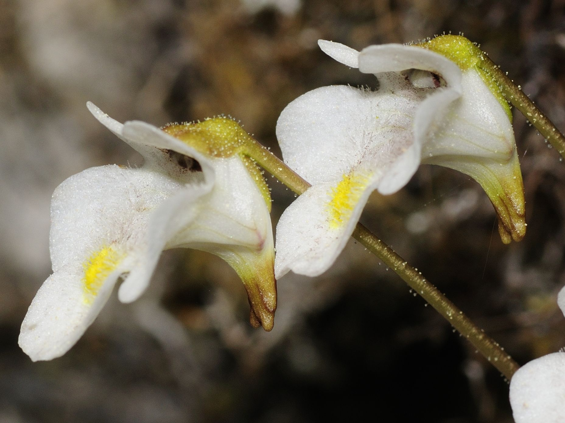 Please report references to .